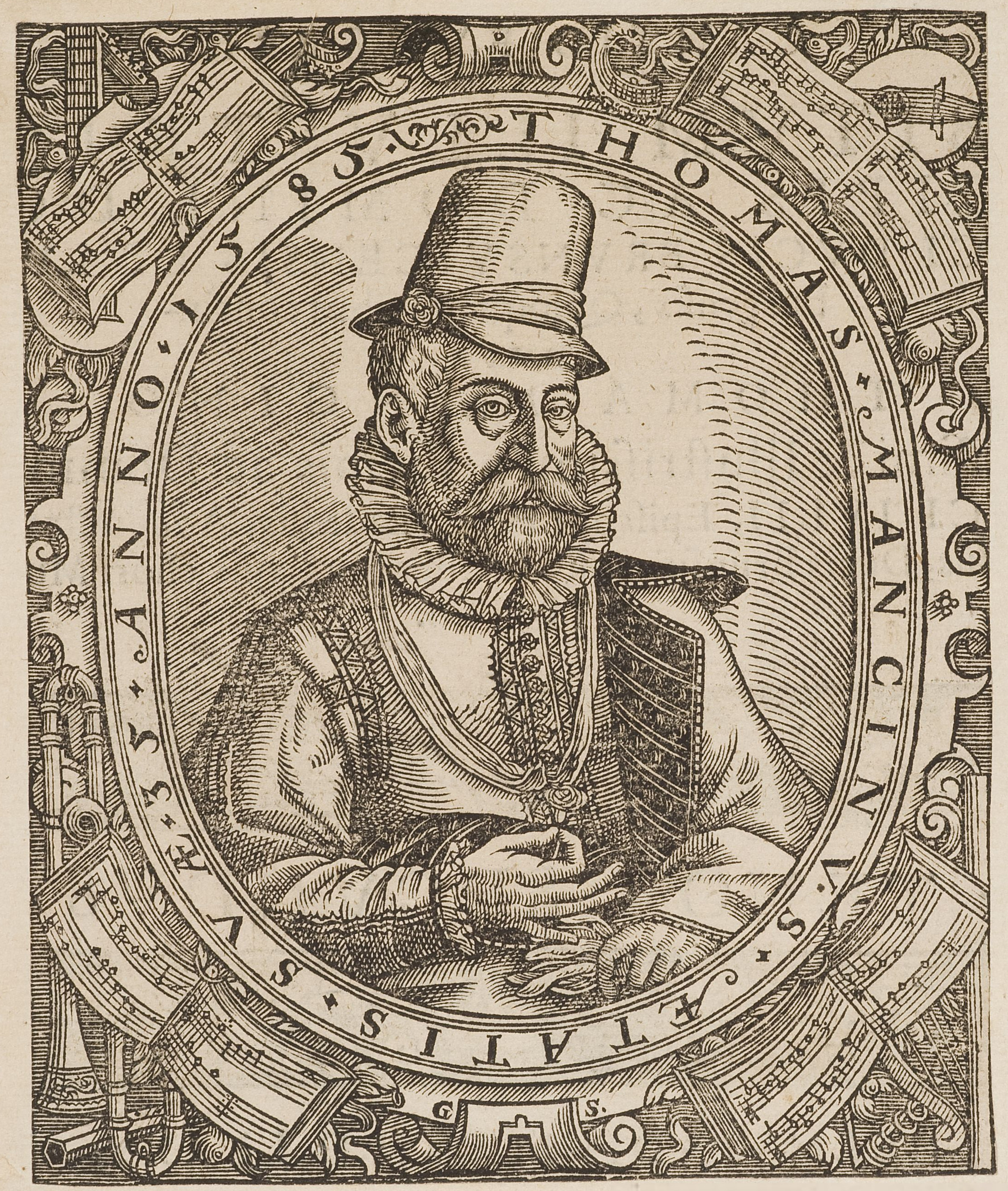 Thomas Mancinus (1550–1612)